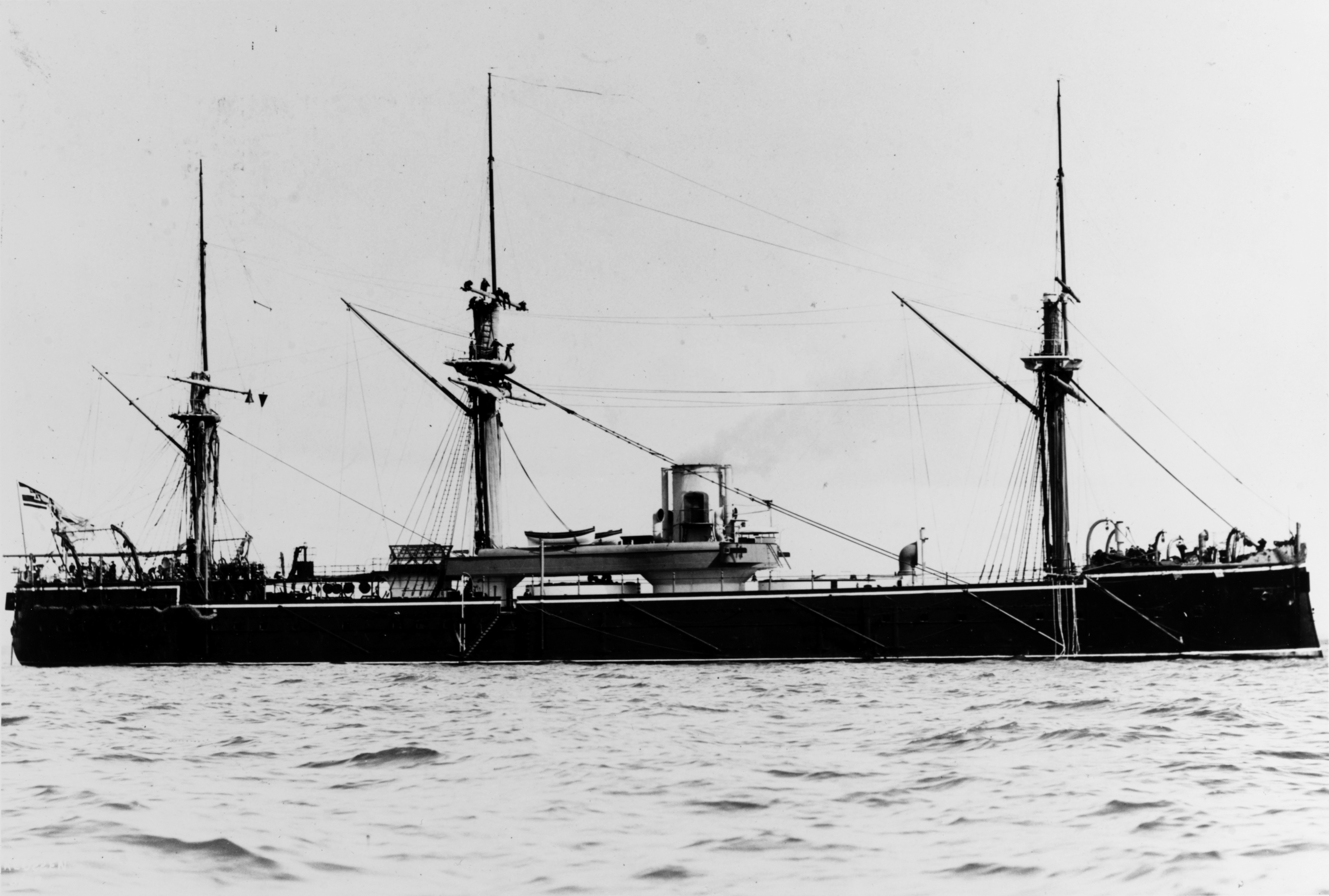 German turret ship SMS Preussen. Photographed in 1887 with torpedo nets and reduced rig.